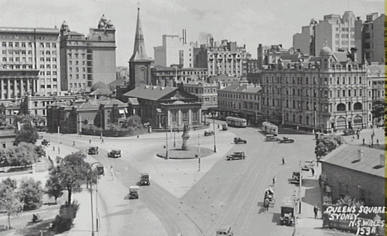 Aerial view of junction of Macquarie & King Streets, Sydney